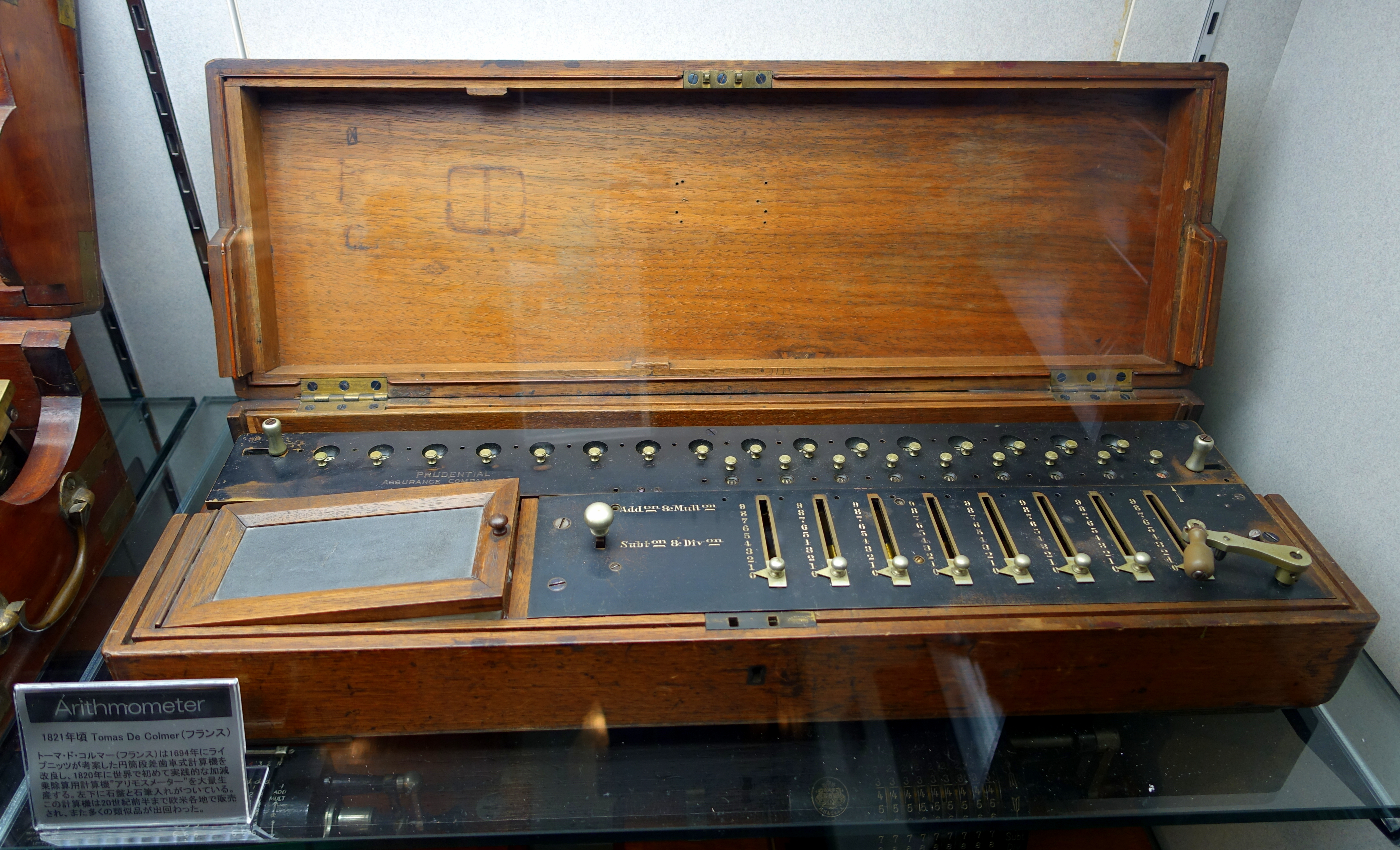 Exhibit in the Ridai Museum of Modern Science, Tokyo University of Science, Kagurazaka campus - 1-3 Kagurazaka, Shinjuku-ku, Tokyo.